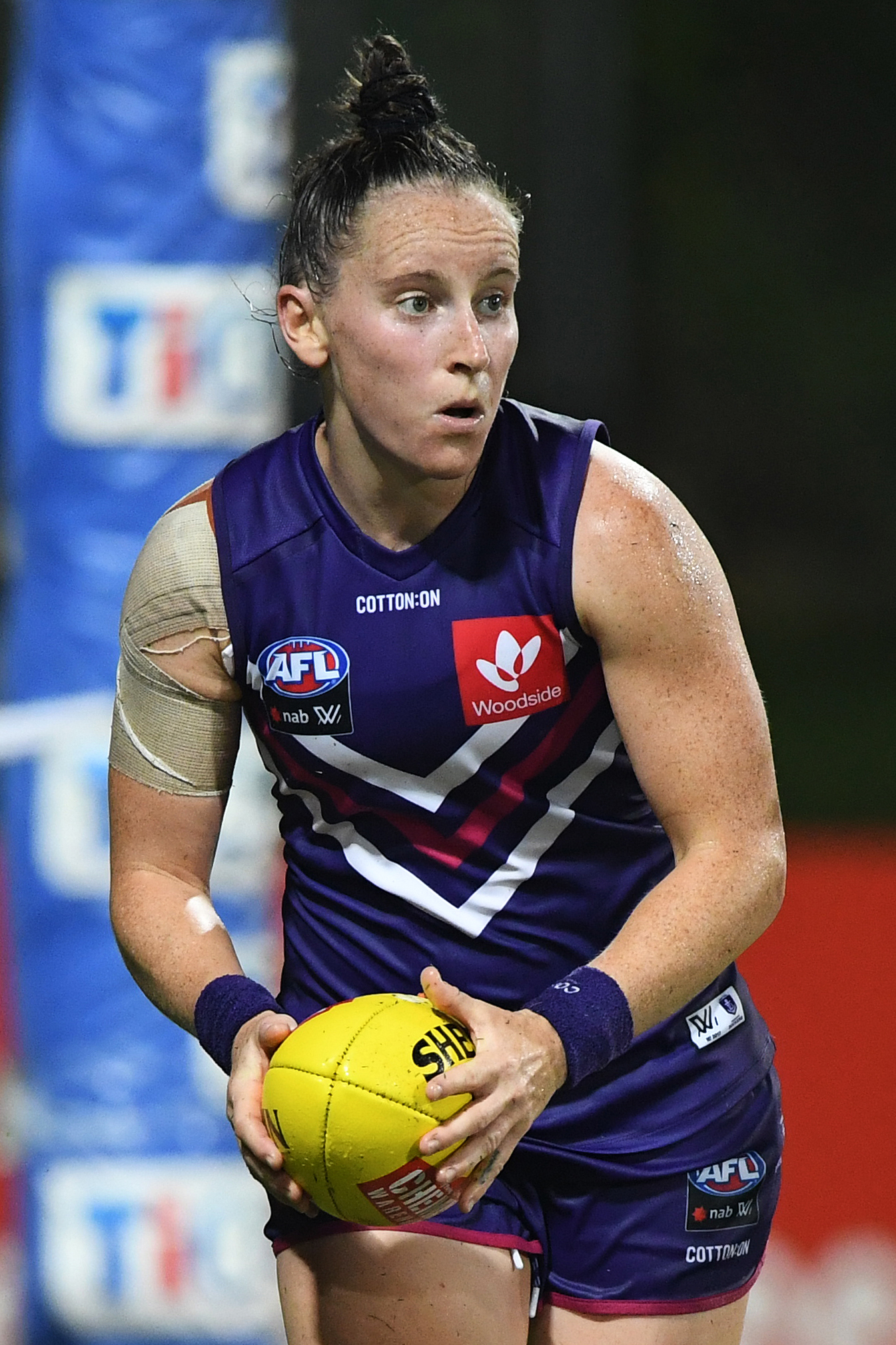 Kara Donnellan of Fremantle during the 2019 AFL Women's practice match between the Adelaide Football Club and Fremantle Football Club at TIO Stadium on January 19, 2019 in Darwin Australia.